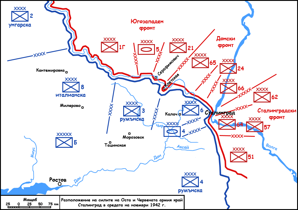 Axis and Red army forces around Stalingrad in the middle of November 1942.